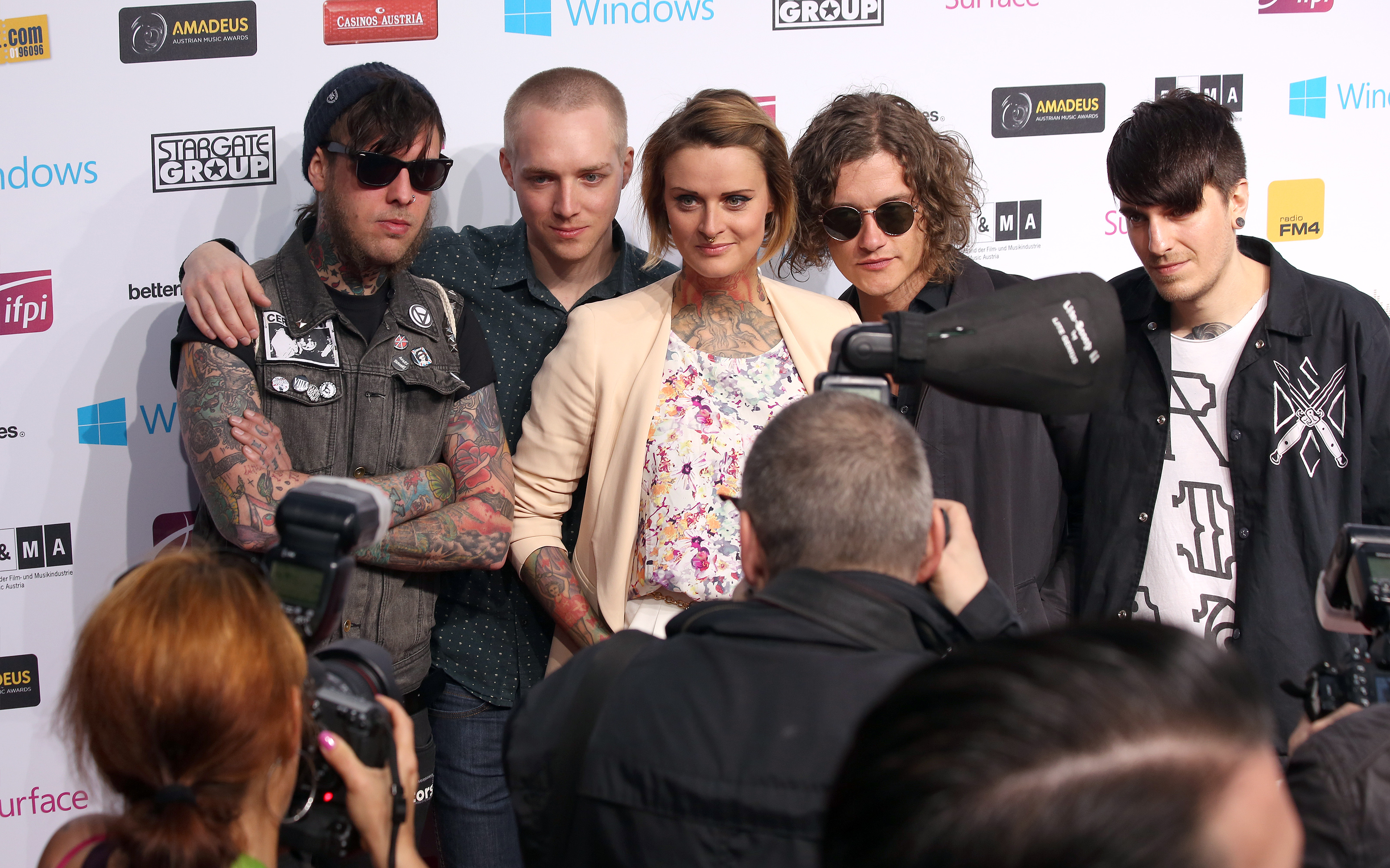 Jennifer Rostock at the Amadeus Austrian Music Award 2014 at Volkstheater in Vienna